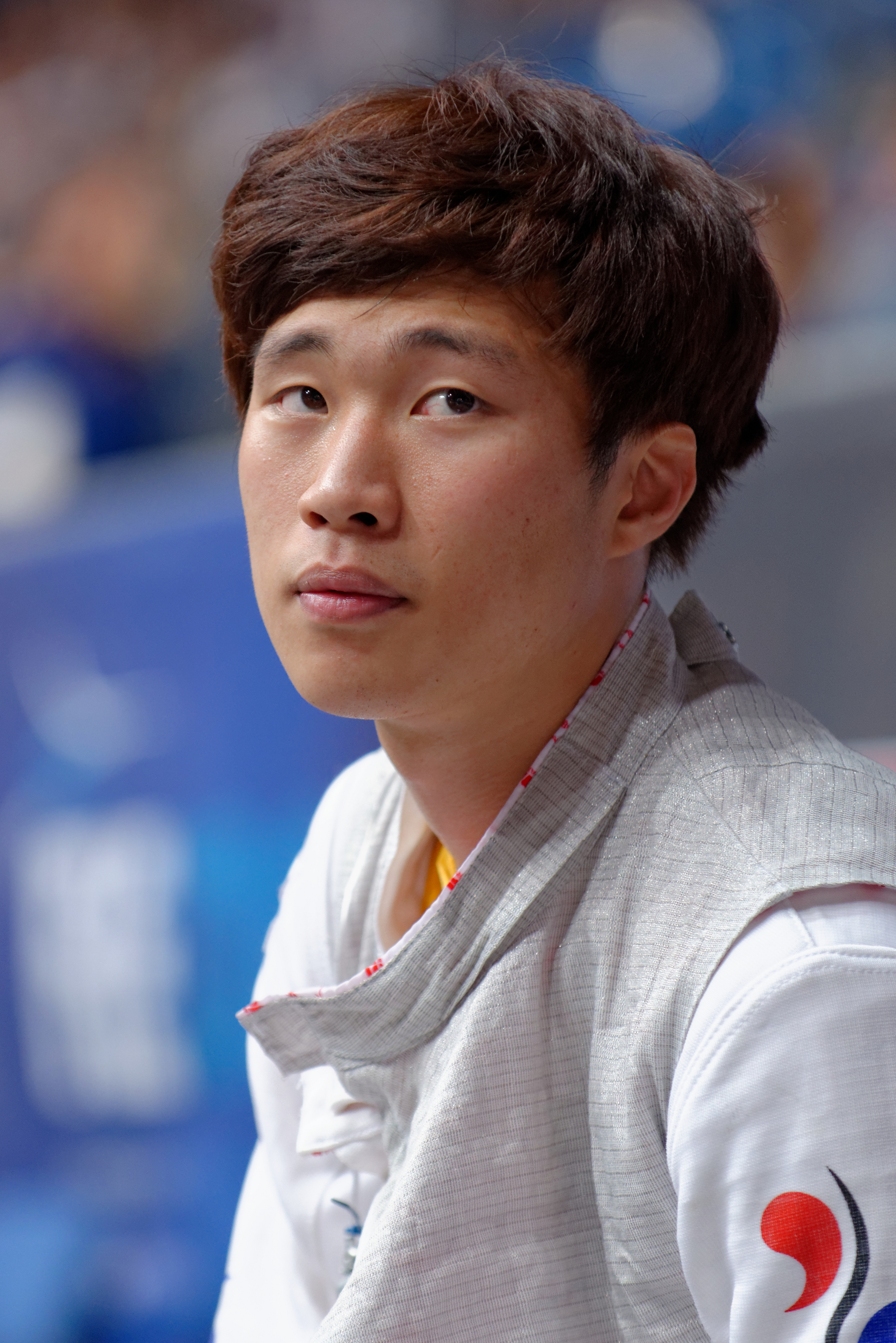 Korea's Kim Min-kyu at the men's team foil event of the 2013 World Fencing Championships 2013 at Syma Hall in Budapest, 12 August 2013.